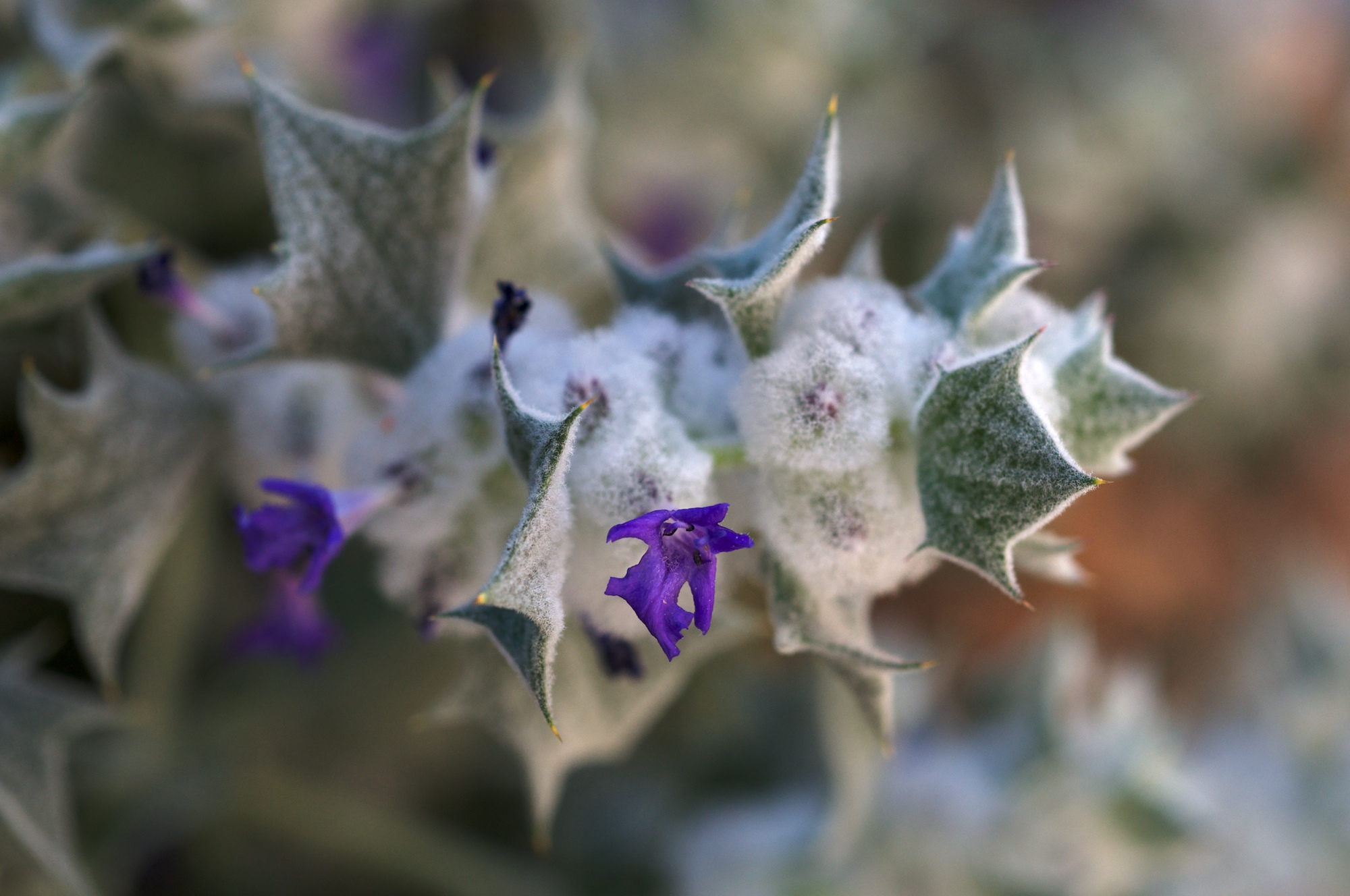 Common name: Death Valley Sage Photographed in Titus Canyon, Death Valley National Park